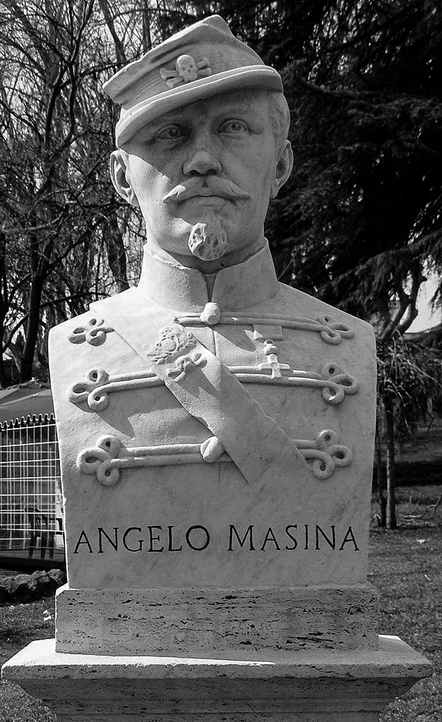 Rome, park of Gianicolo, bust of Angelo Masina (1815-1849), by Michele Capri, 1887-1888